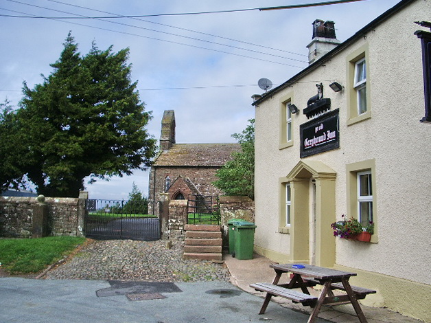 The church and pub, Bromfield, near to Bromfield, Cumbria, Great Britain. Not like Langrigg, here they still have a church and pub